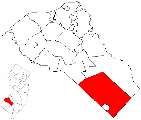 Map of Gloucester County highlighting Franklin Township